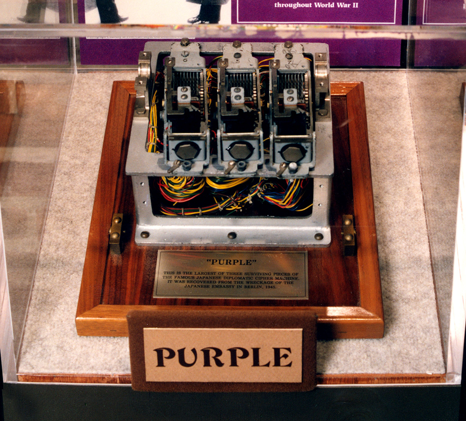 Fragment of an original Japanese Type 97 "Purple" cipher machine on display at the United States National Security Agency's National Cryptologic Museum located in Ft. Meade, Maryland. The plaque at the base of the machine fragment reads: " 'Purple' This is the largest of three surviving pieces of the famous Japanese diplomatic cipher machine. It was recovered from the wreckage of the Japanese embassy in Berlin, 1945."